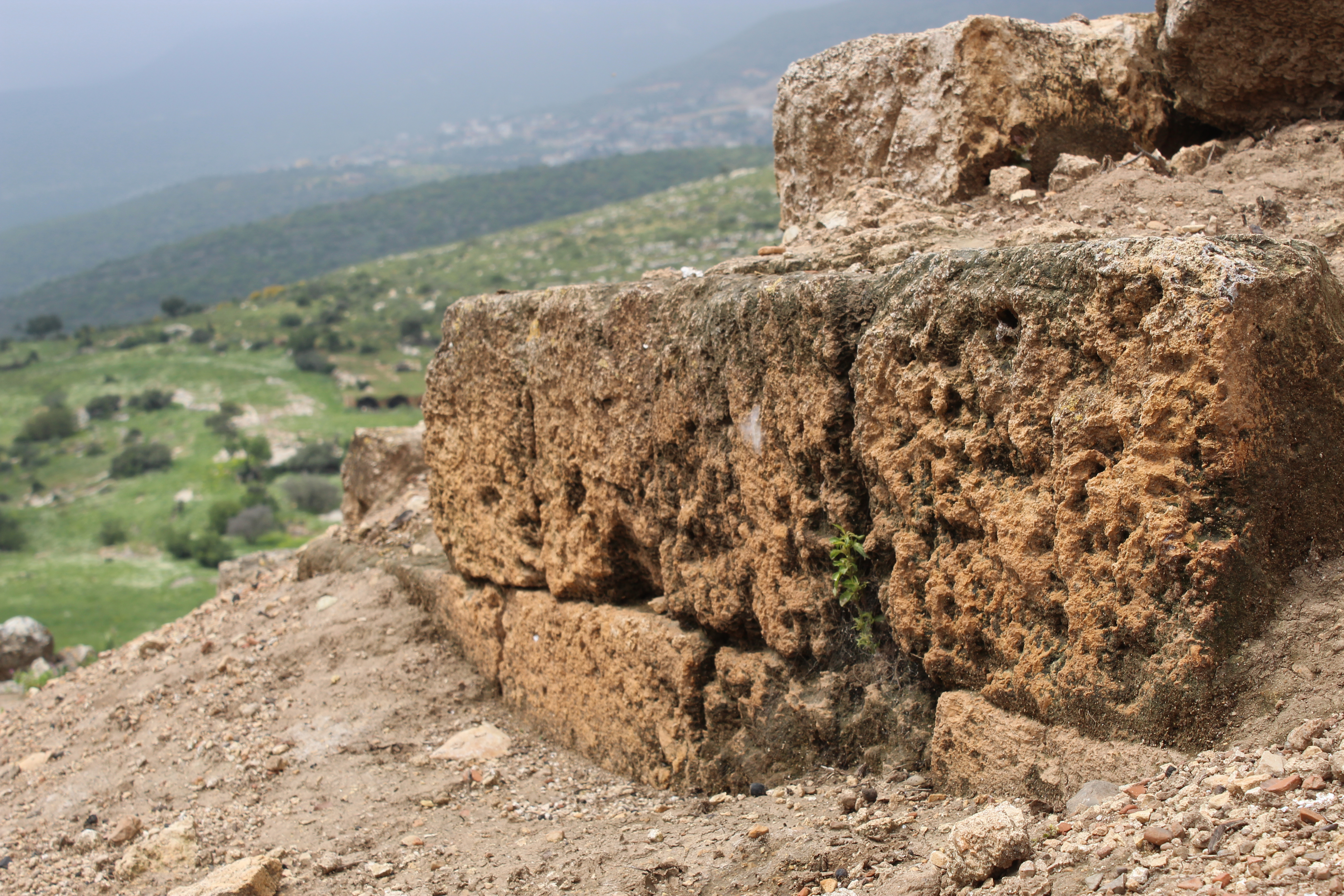 Ruins of Kafr 'Inan (Old Kefar Hananiah)